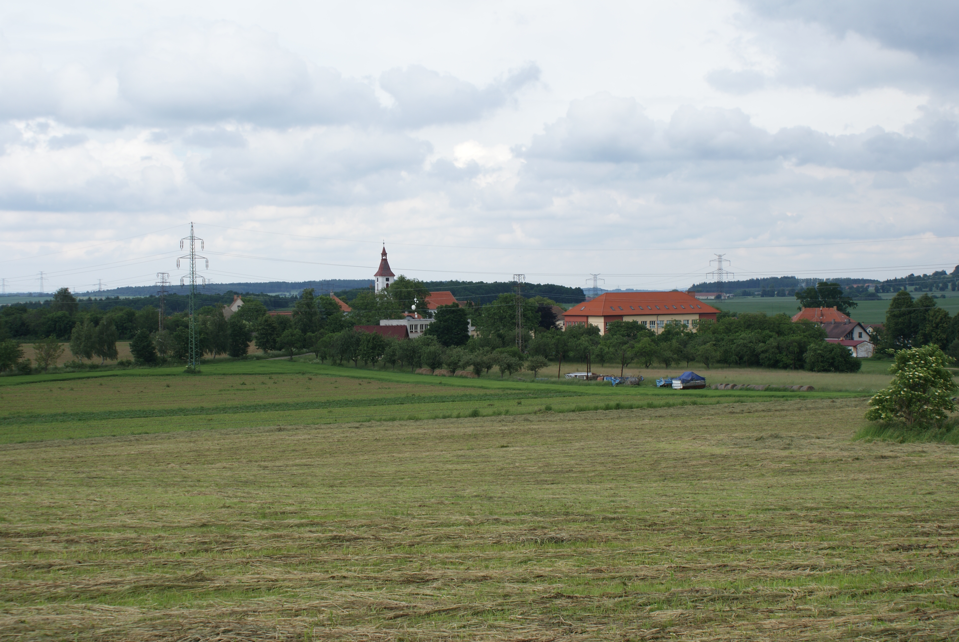 Chraštice, a village in Příbram district, Czech Republic, general view. Česky: Chraštice, okres Příbram